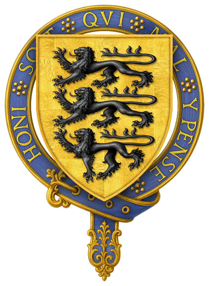 Quartered arms of Sir Nicholas Carew (c.1496-1539), KG, of Beddington in Surrey, as described in Ashmole's Register of the Most Noble Order of the Garter -- 1st Carew, 2nd Hoo, 3rd Welles quartering Engayne, 4th Waterton, 5th Mohun, 6th Idron (alias Odrone), for Irish barony of "Odrone" (mod. Idrone, County Carlow)